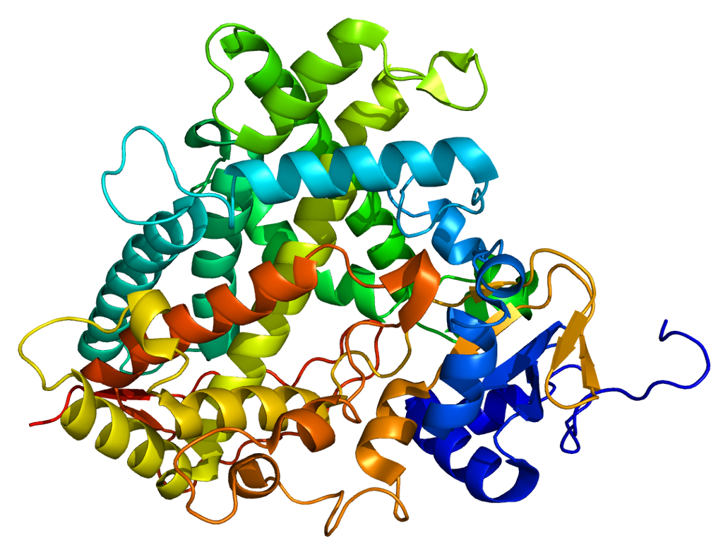 Structure of the CYP1A2 protein. Based on PyMOL rendering of PDB 2hi4.